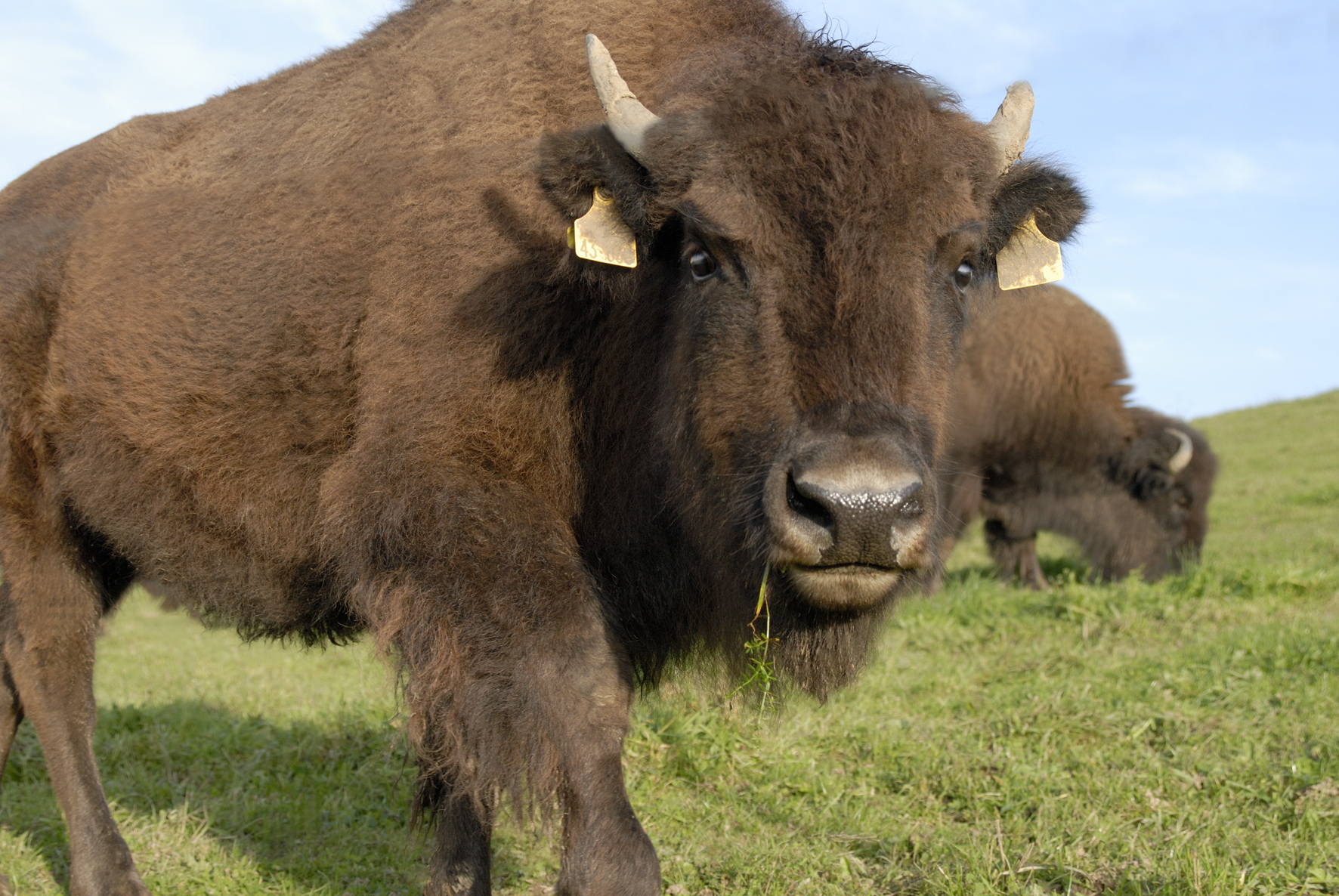 Wisents (European Bison) at Bodanrück